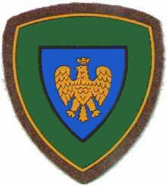 Coat of Arms of the Julia Brigade, Italian Army